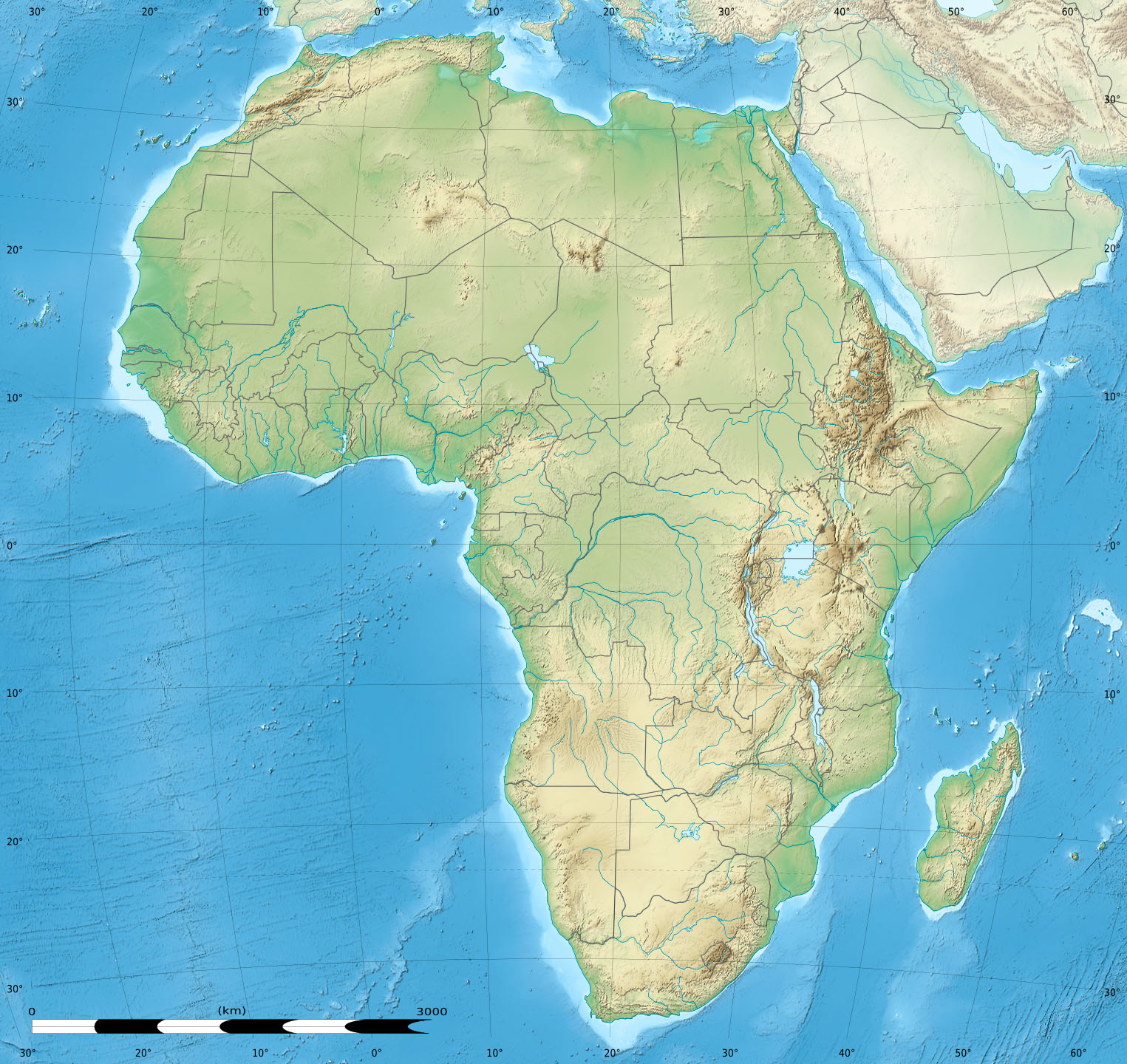 Blank physical map of political Africa, for geo-location purposes. Borders as in July 2011.